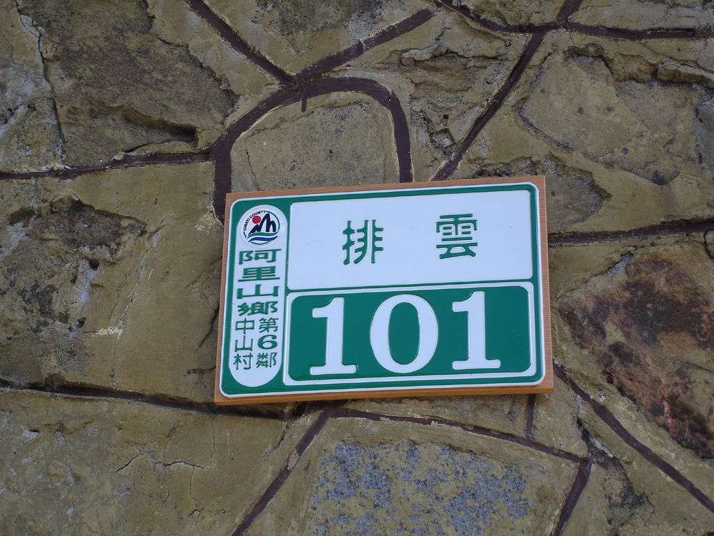 House numbering of Paiyun Lodge.中文（中国大陆）: 排云山庄的门牌号码。